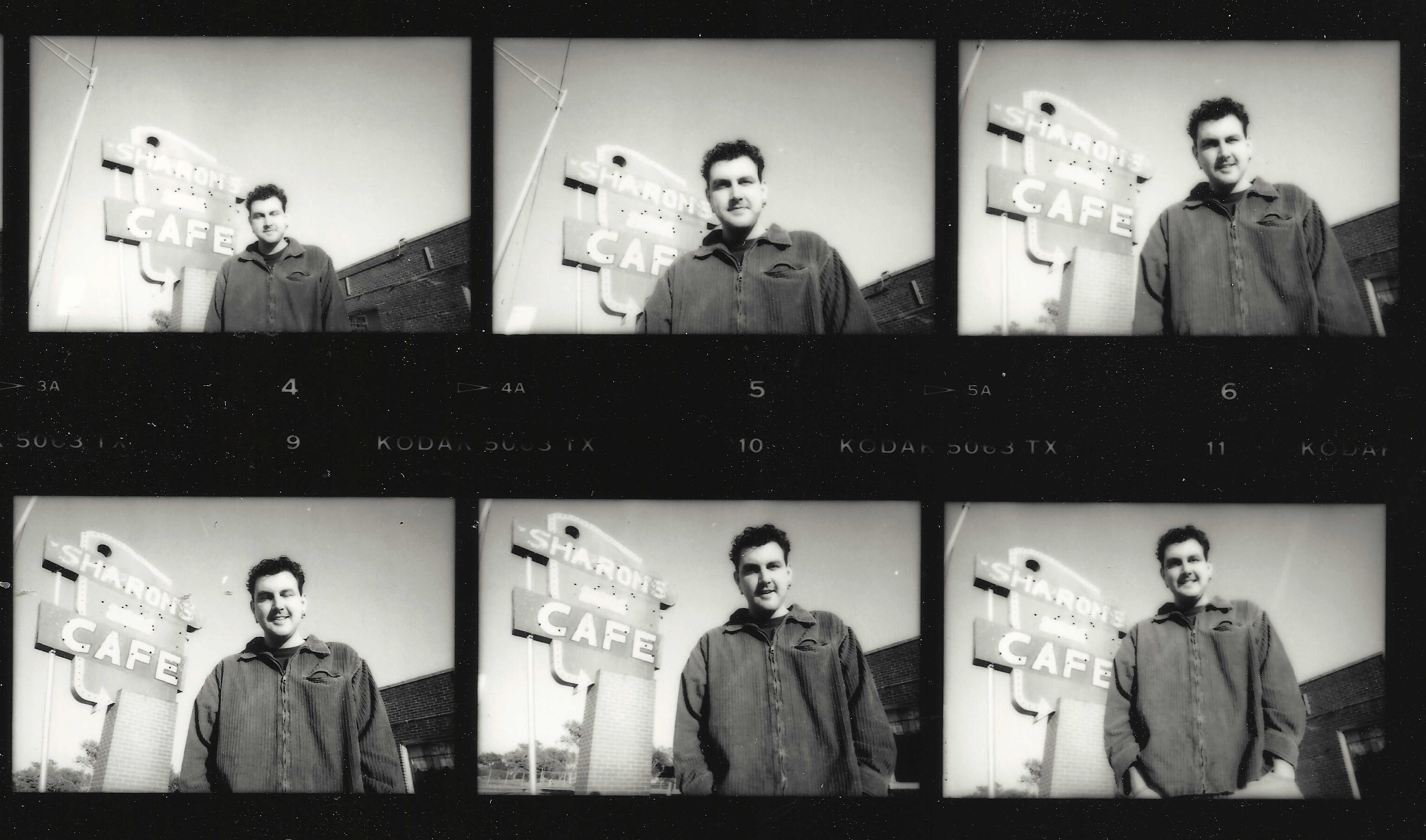 Wes Sharon proof sheet OKC, OK 1999